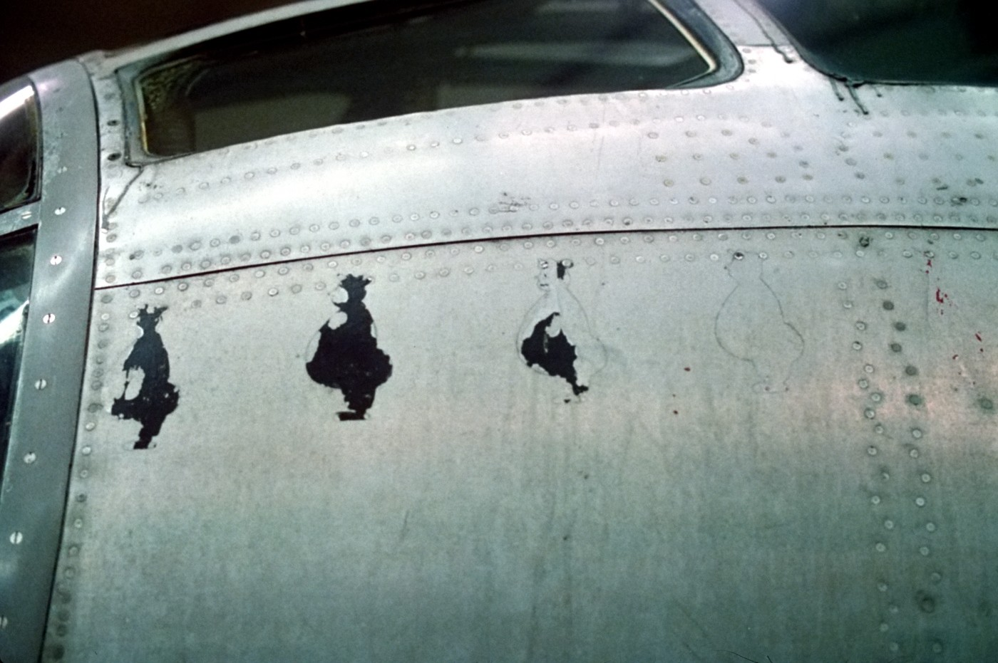 Under the cockpit windows on the Enola Gay, while in storage at the Smithsonian, '87. Photo taken by myself.